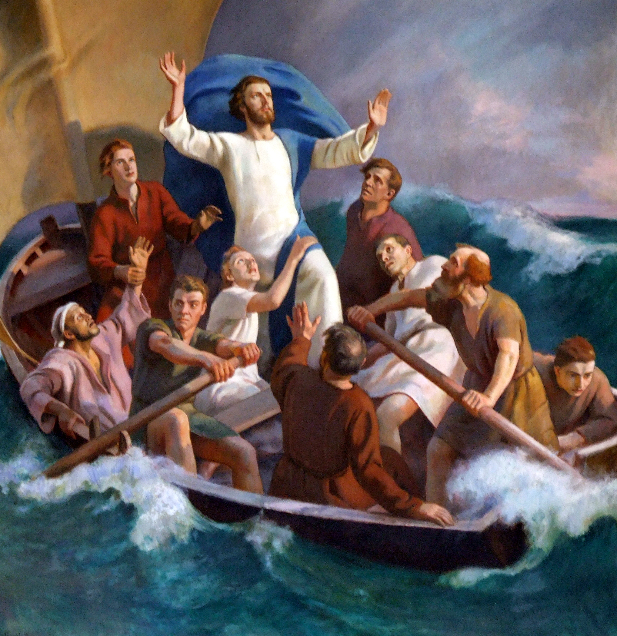 The altarpiece in the Raahe church. Eero Järnefelt: In a Storm with Jesus (1926). The artist would have preferred the name Awakening of Hope.